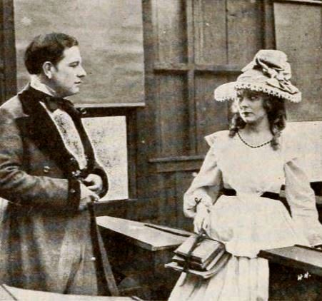 Still from the American western film Fighting Cressy (1919) with an unidentified actor and Blanche Sweet, on page 46 of the December 13, 1919 Exhibitors Herald.